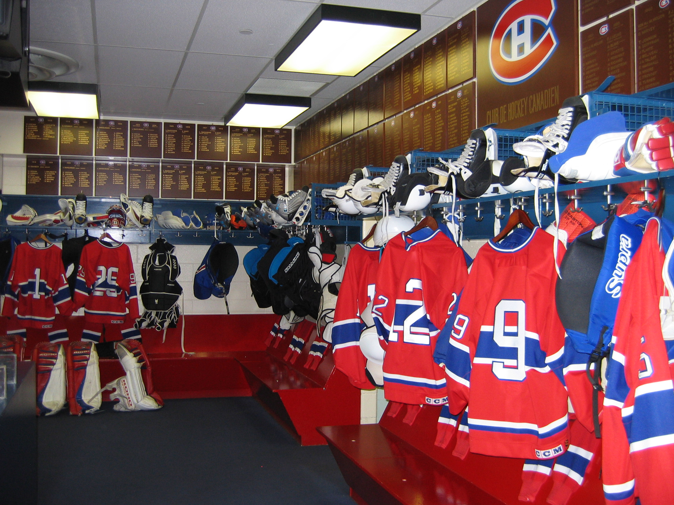 Montreal Canadiens dressing room (from the Montreal Forum) at the Hockey Hall of Fame